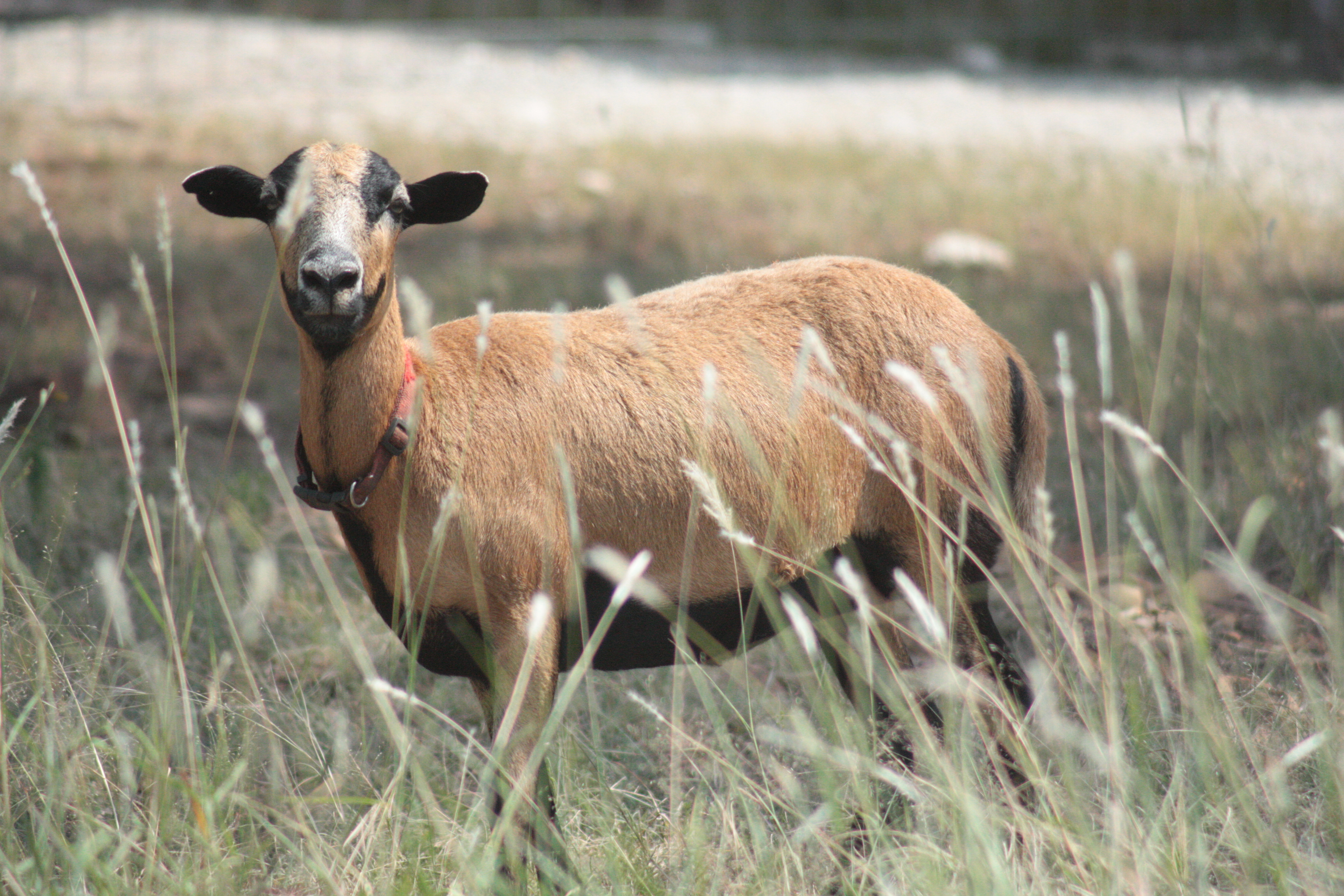 Picture of a domesticated barbados blackbelly sheep owned by my father.